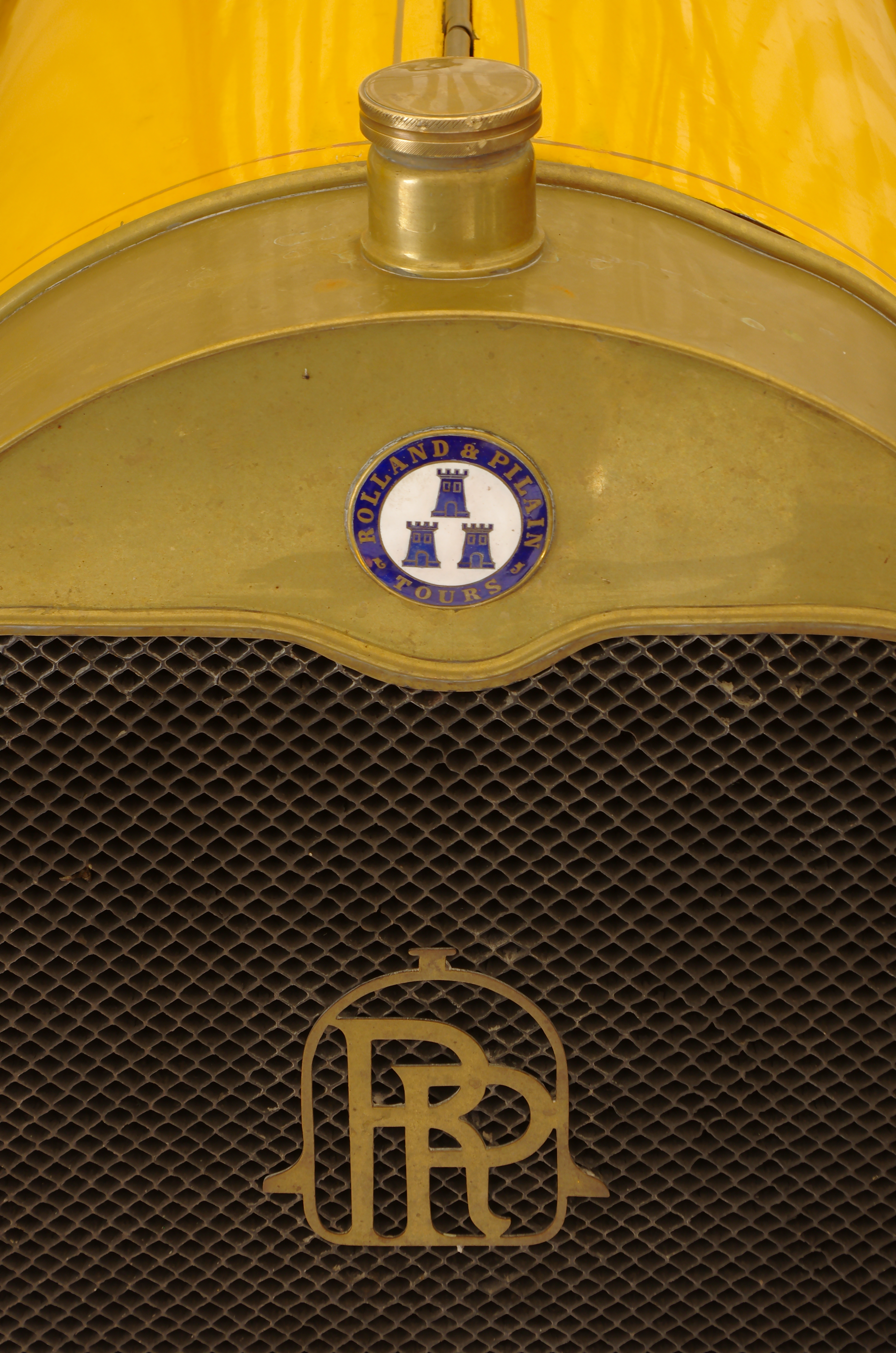 Emblems of car maker Rolland-Pilain on a 1908 model (twoseater, E type), Angoulême, France.